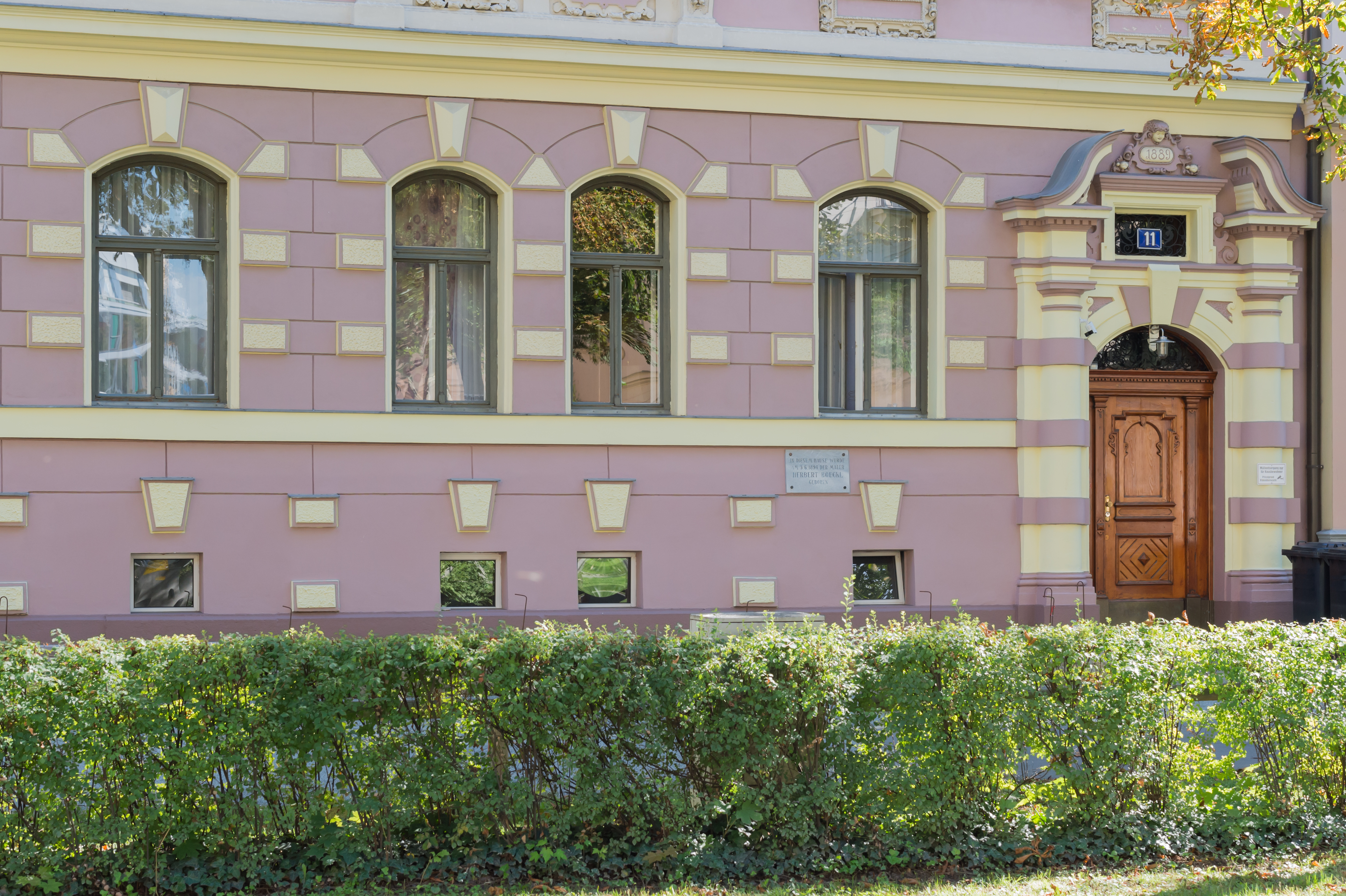 Birthplace of Herbert Boeckl, late historicist building, Viktringer Ring #11, 7th district «Viktringer Vorstadt», Klagenfurt, Carinthia, Austria, EU